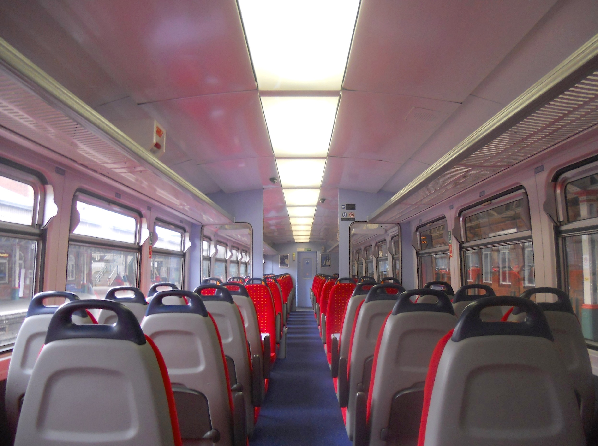 The interior of a refurbished East Midlands Trains Class 153